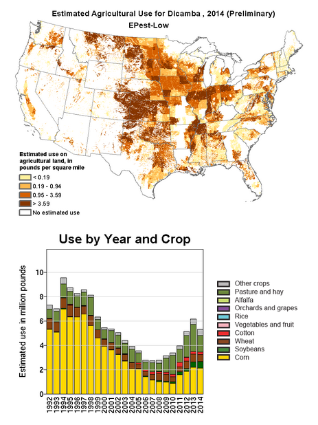 Dicamba map of use, USA, 2014 (estimated)